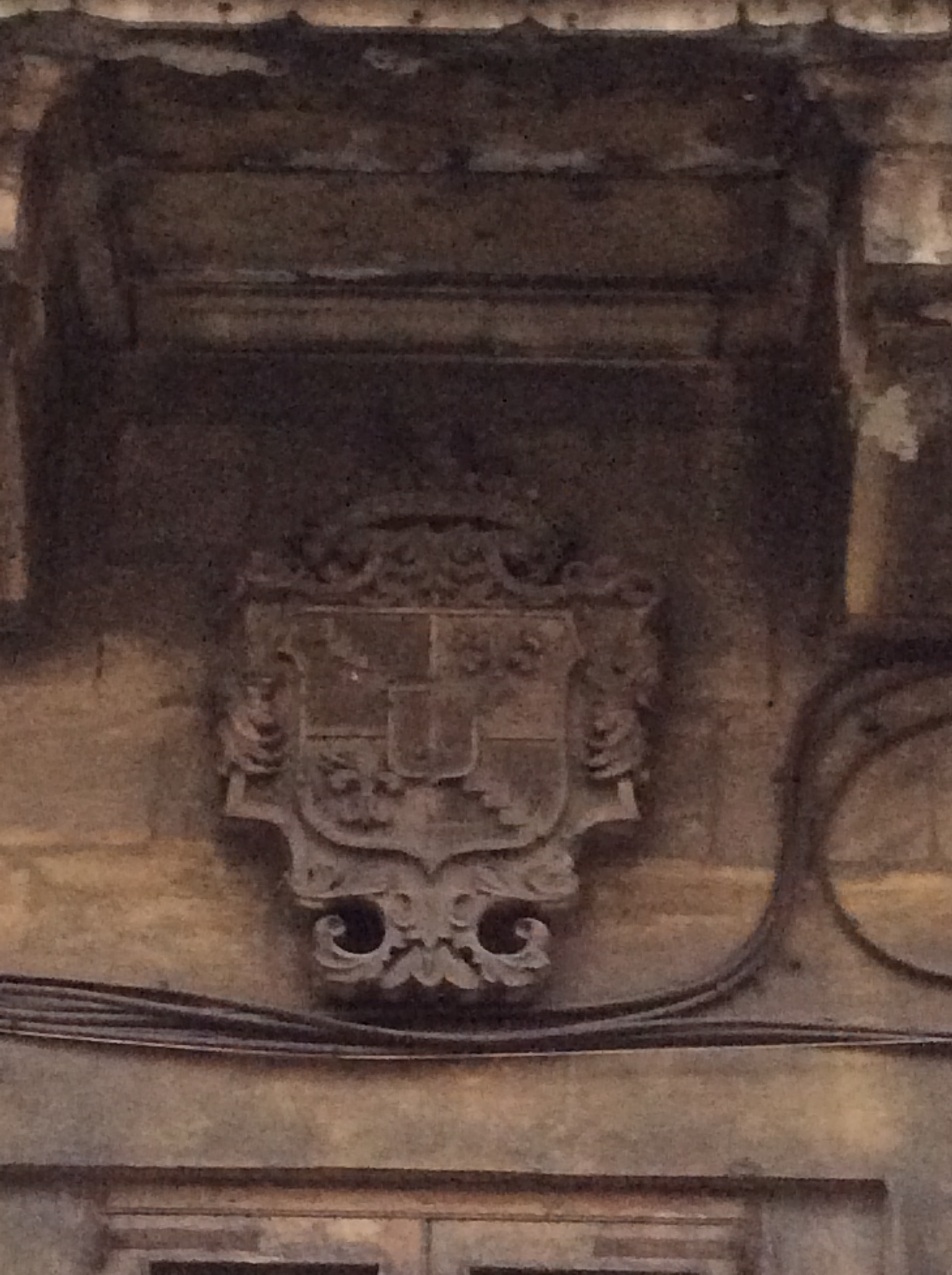 Villa Bonici façade - arm of the Testaferrata family